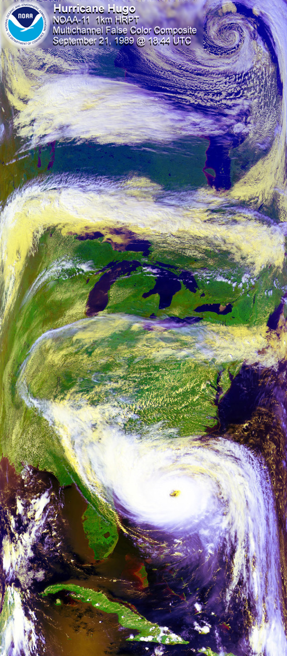 Satellite image of Hurricane Hugo, September 1989